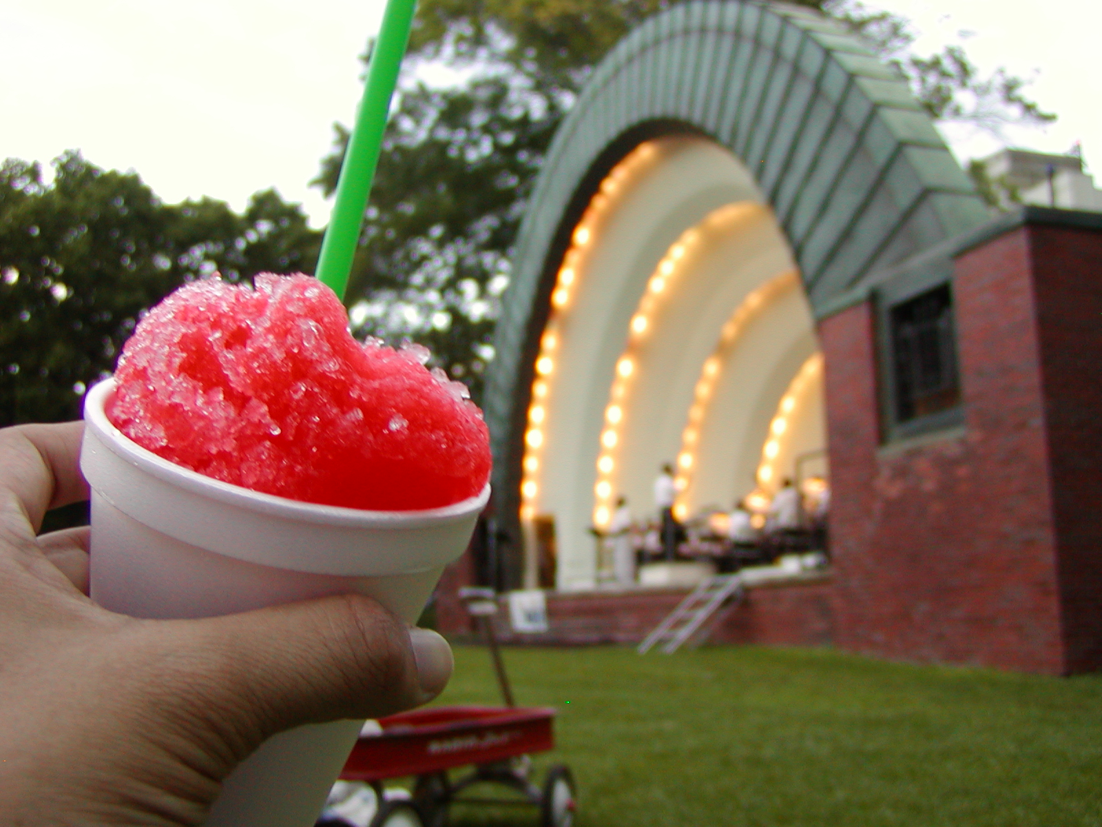 Sno cone at a festival in Ames, Iowa